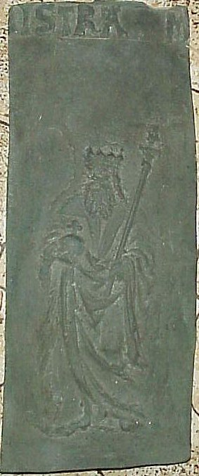 fragment of bell, 1541, Brozánky, Ústí nad Labem District